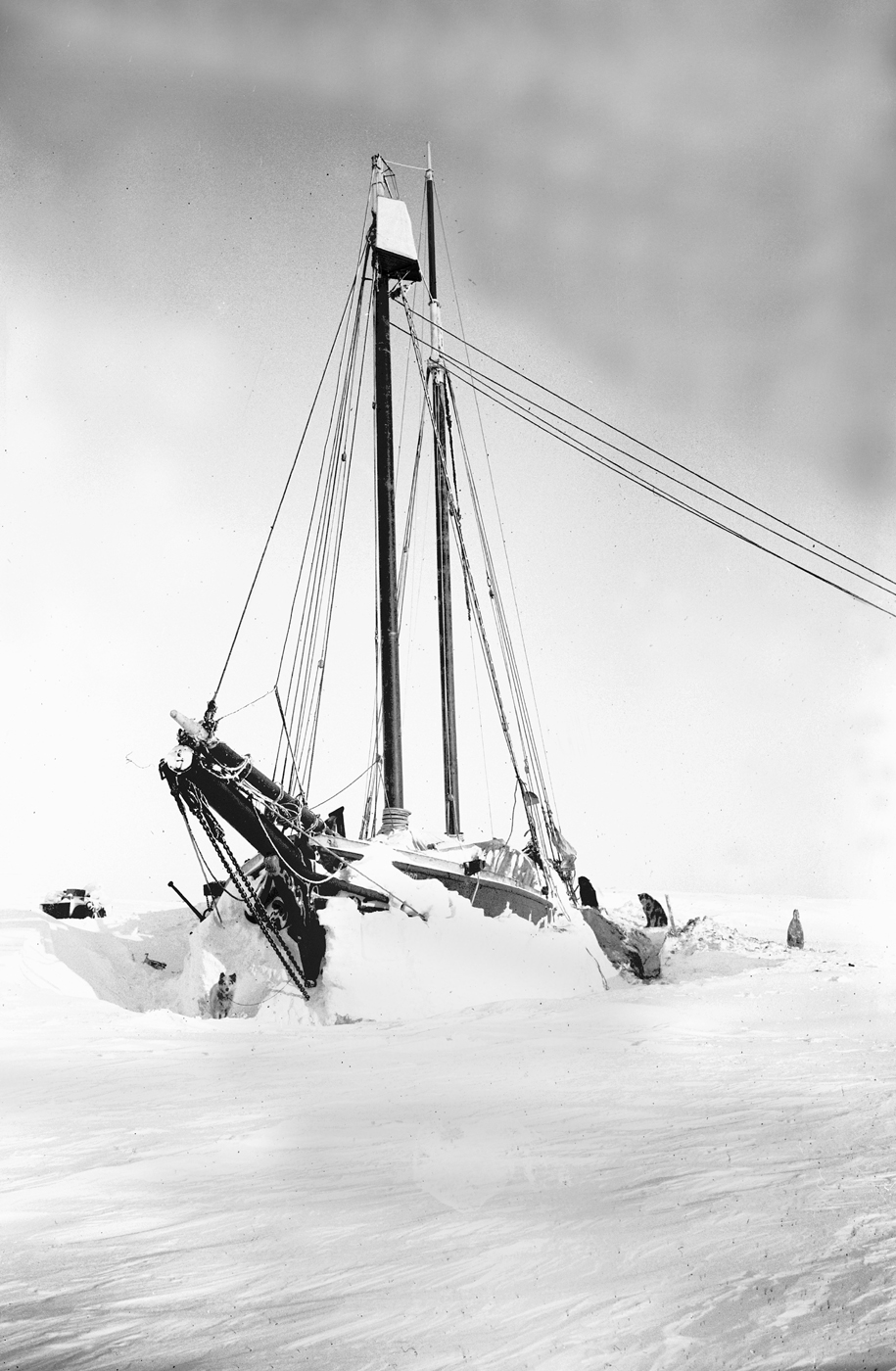 Duchess of Bedford in winter quarters Flaxman Island. Anglo-American Polar Expedition. Canning district, Northern Alaska region, Alaska. 1906.